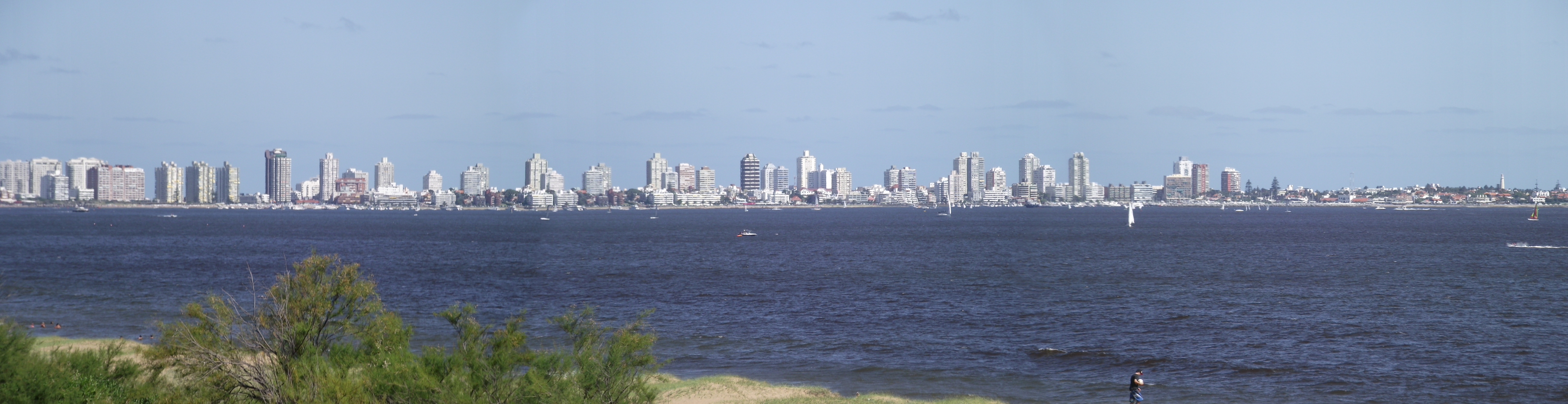 A panoramic photograph of Punta del Este, Uruguay.